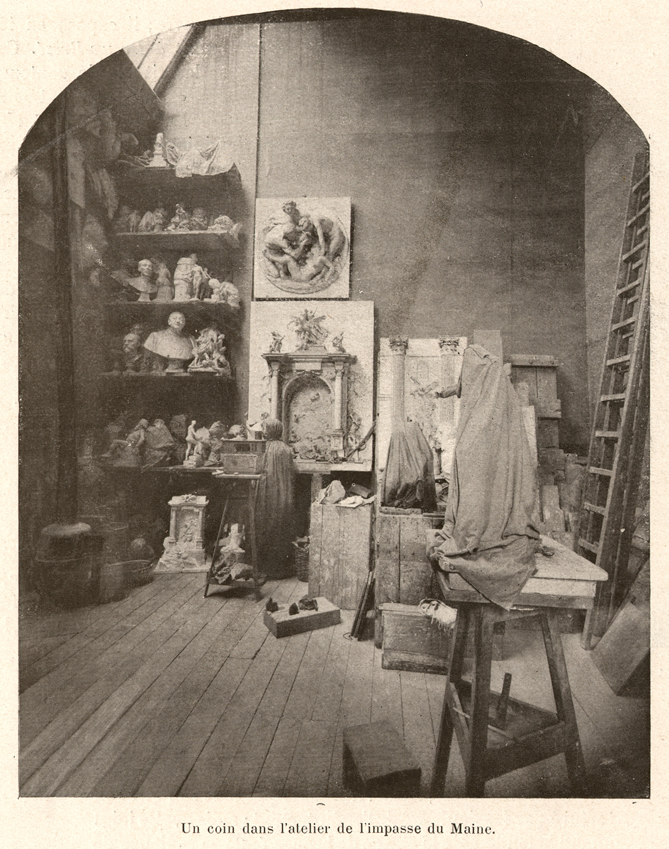 Photograph of the Jules Dalou's studio at impasse du Maine in Paris.